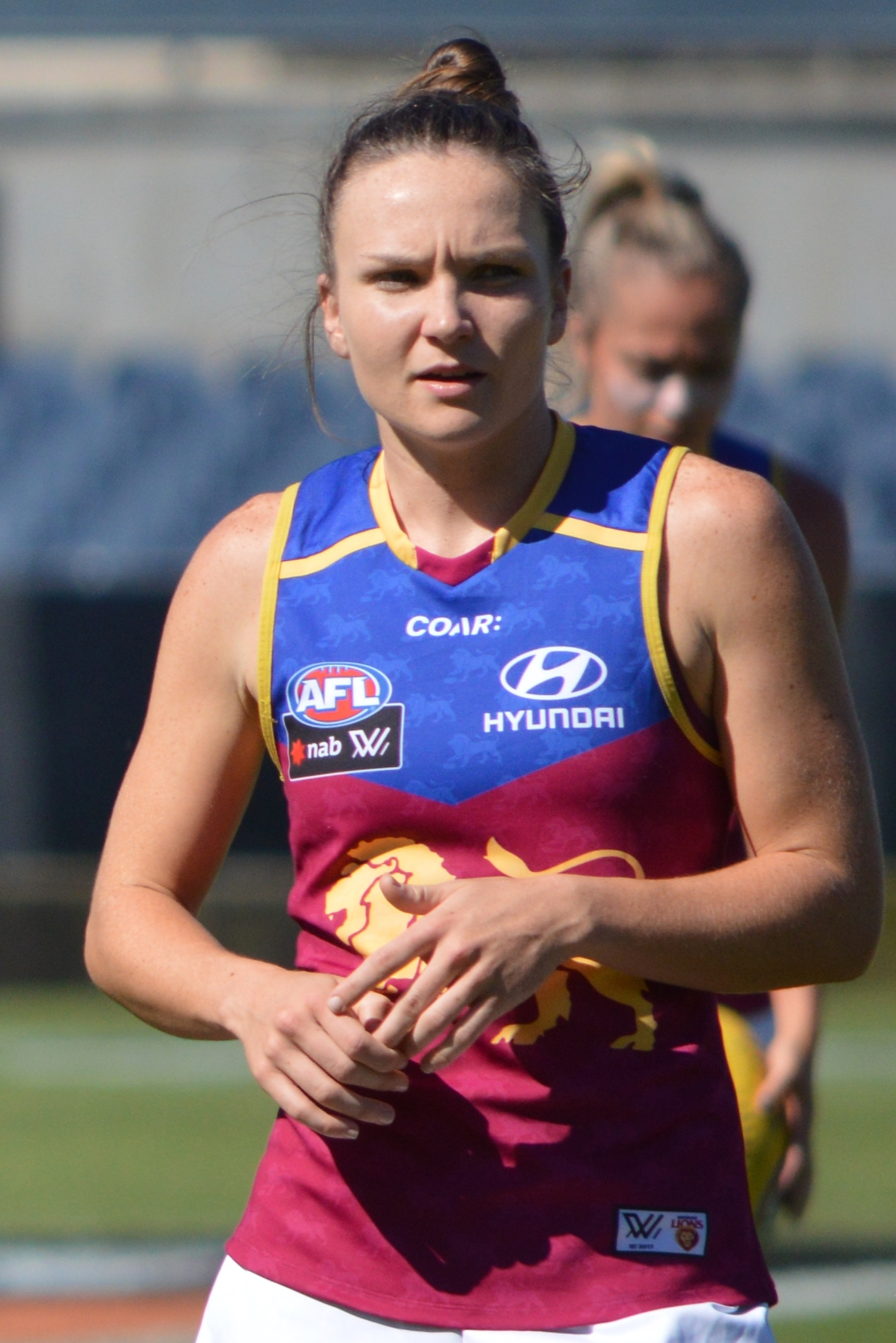 Emily Bates in Round 7 of the 2017 AFL Women's season